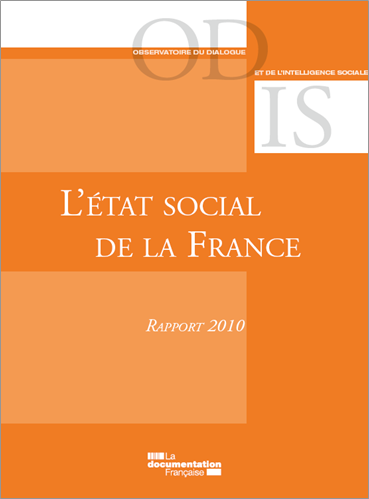 Cover of the book L'état social de la France